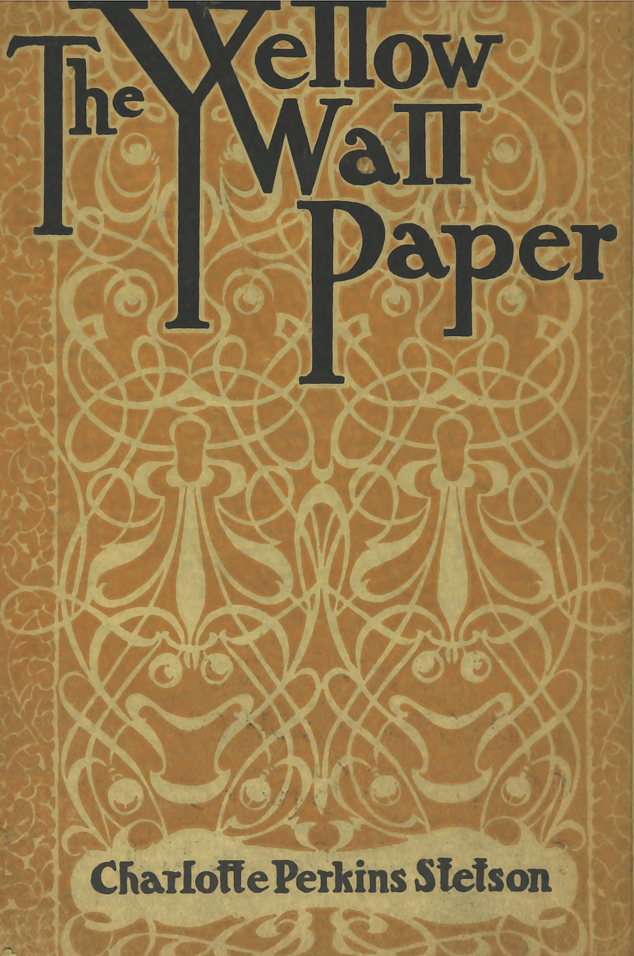 Publisher mark appearing on pg. 1 in The Yellow Wall Paper.